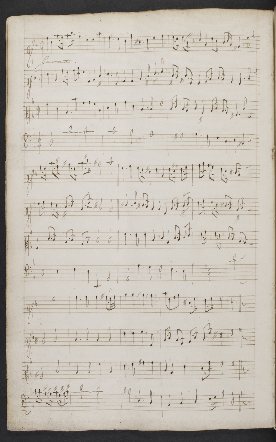 Venus and Adonis. In the hand of John Walter.